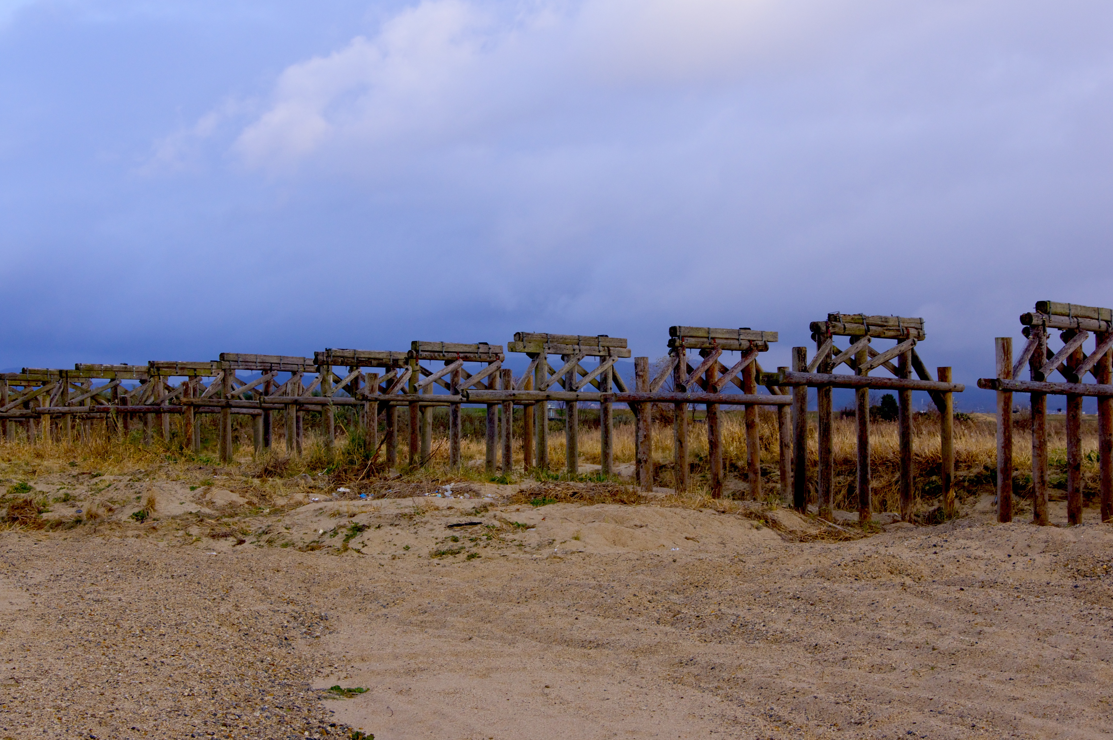 Kōzuya Bridge,Low water crossing in Kyoto,Japan.